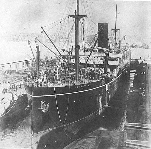 SS Berrima in build at Caird & Co in 1913.